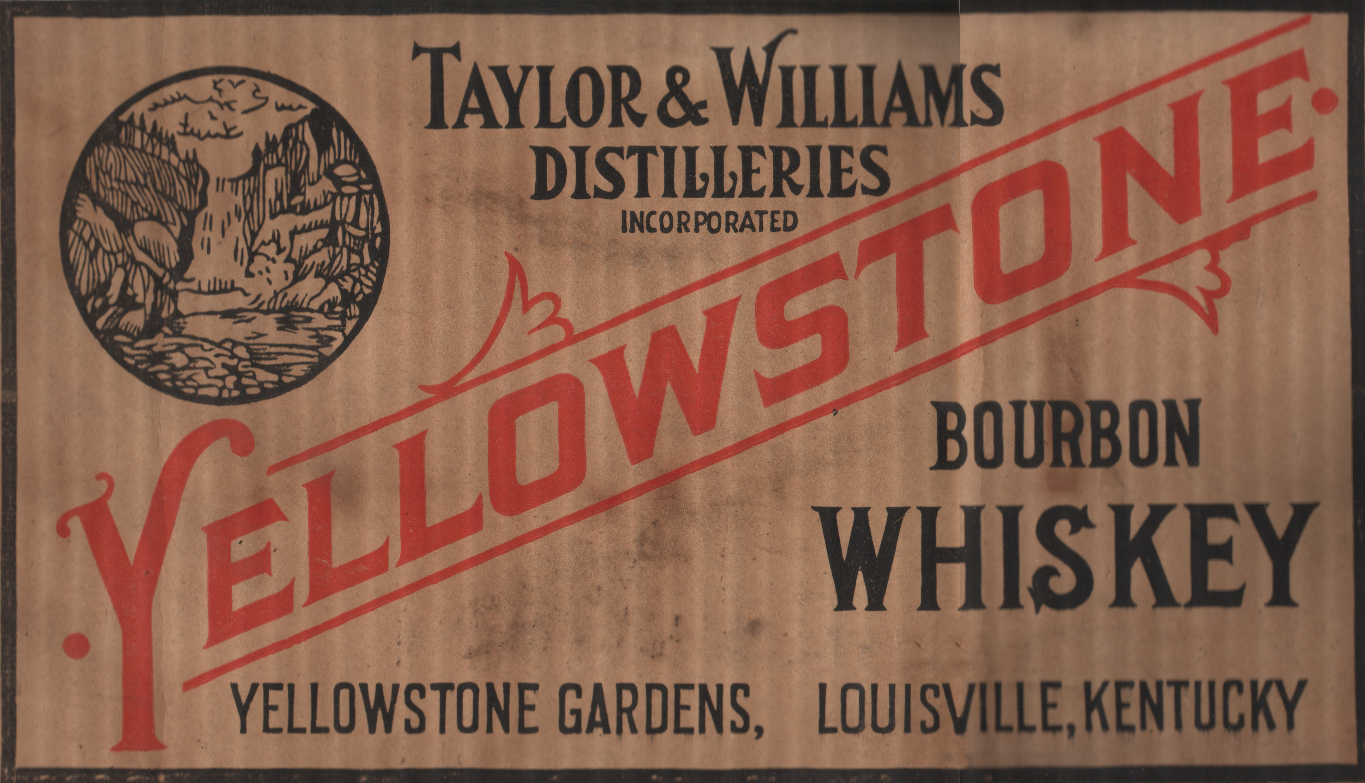 Box side of Yellowstone Bourbon. Taylor & Williams Distilleries